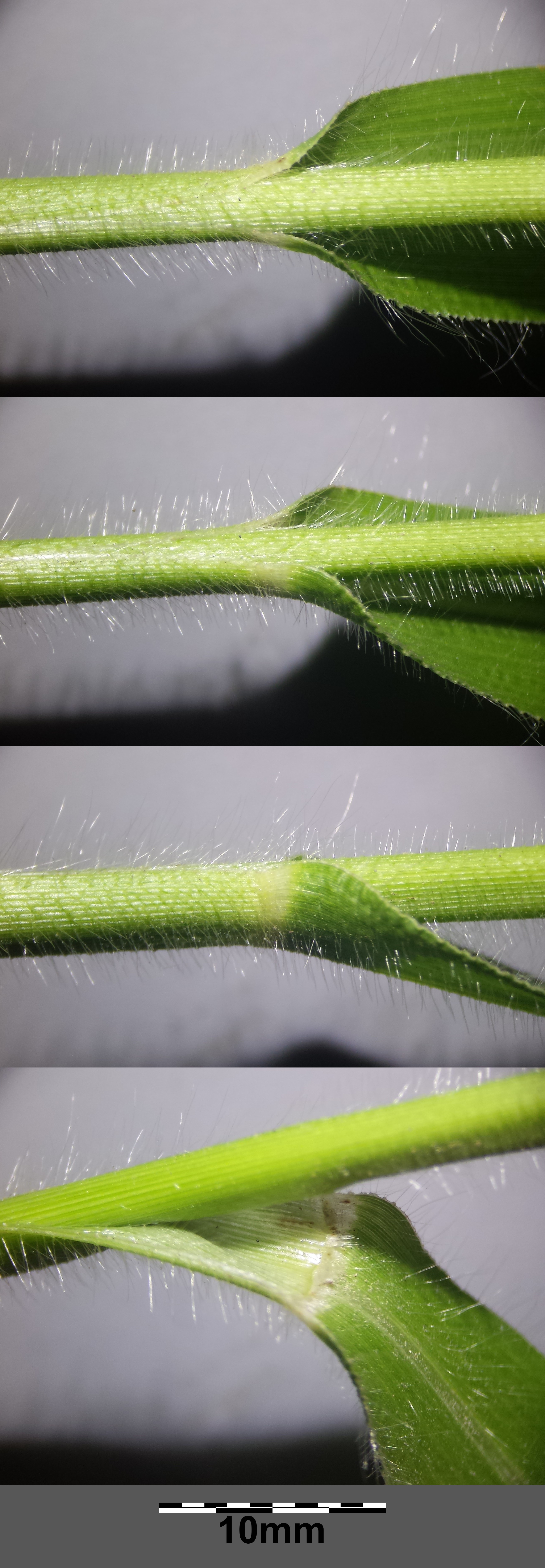 Stem with hairy leaf sheat and ligule Taxonym: Panicum capillare ss Fischer et al. EfÖLS 2008 ISBN 978-3-85474-187-9 Location: Grellgasse, Vienna-Floridsdorf - ca. 160 m a.s.l. Habitat: slope